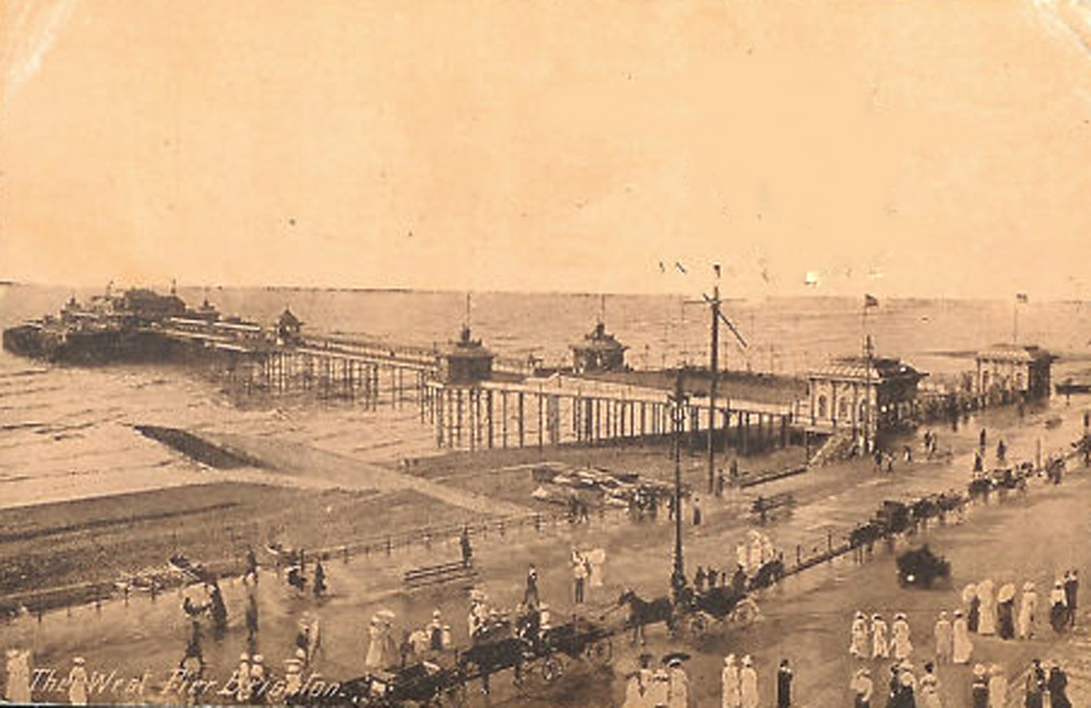 West Pier, Brighton circa 1900. By this time a central bandstand had been added and weather screens the full length of the pier. Steamer landing stages and a large pavillion at the end of the pier had also been constructed.